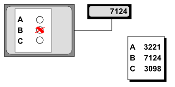 Illustrating example for Bingo Voting showing the screen of a voting machine (left), a random number generator (middle) and a voting receipt (right).